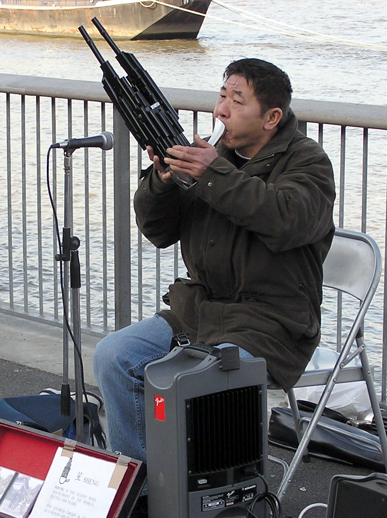 Guo Yi (郭艺, Pinyin: Guō Yì), a Sheng player beside the River Thames, outside the Tate Modern Gallery, London, England.